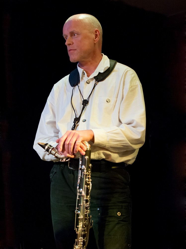 Gebhard Ullmann, Jazz clarinetist; Picture taken in Jazz Club Unterfahrt, Munich/Bavaria